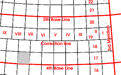 Overview of Dominion Land System (Canada) showing township numbering system